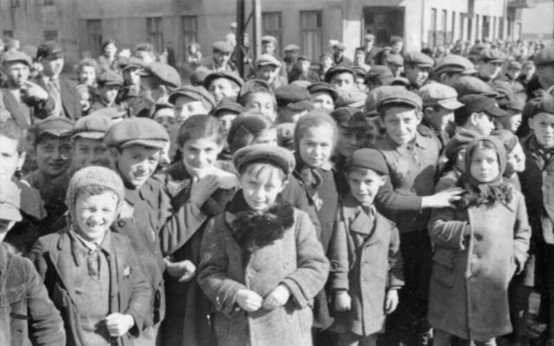 Ghetto Litzmannstadt, a meeting of children on Sulzfelder Straße (Wojska Polskiego street) and Blechgasse (Obrońców Westerplatte street).